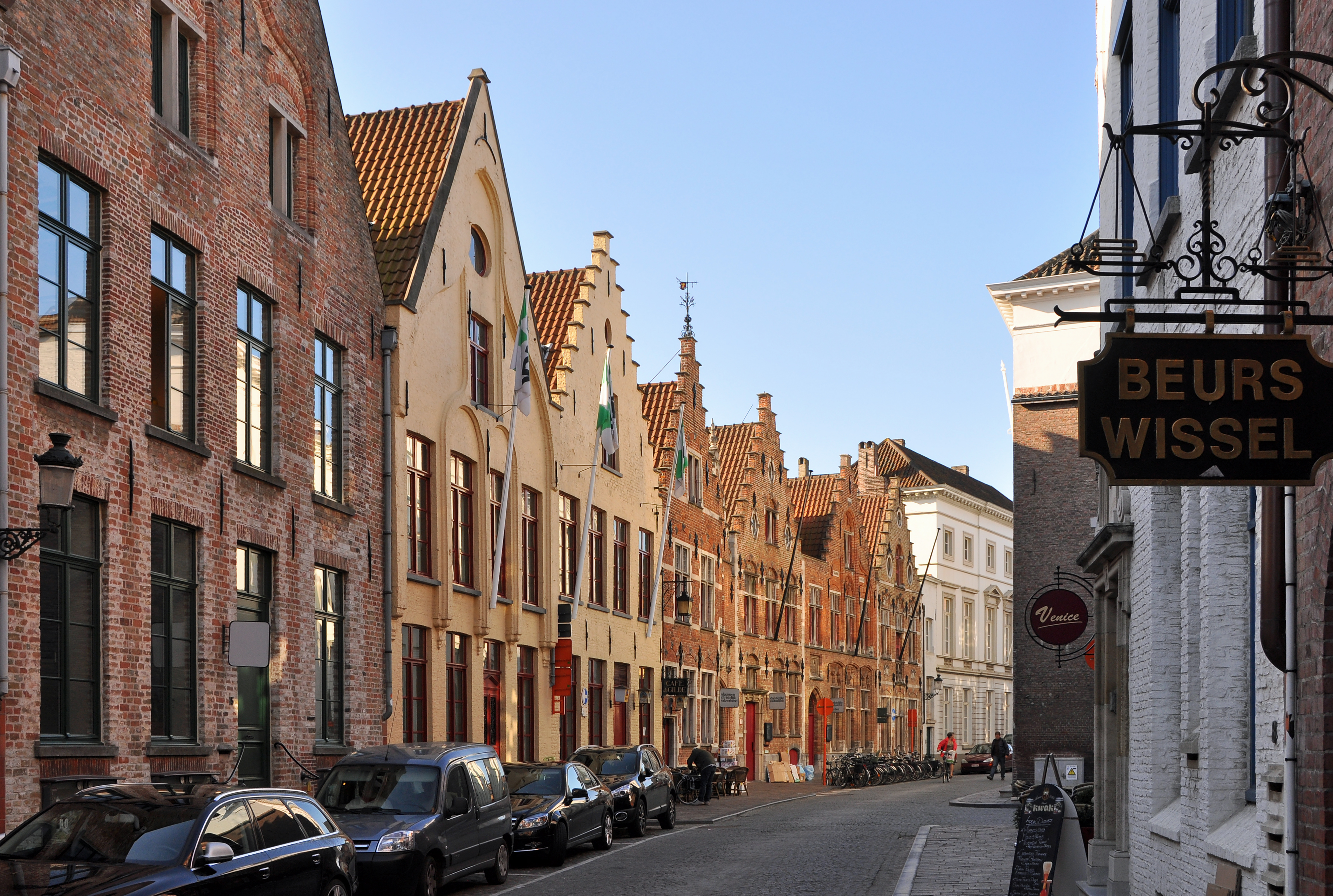 Bruges (Belgium): Oude Burg (street)